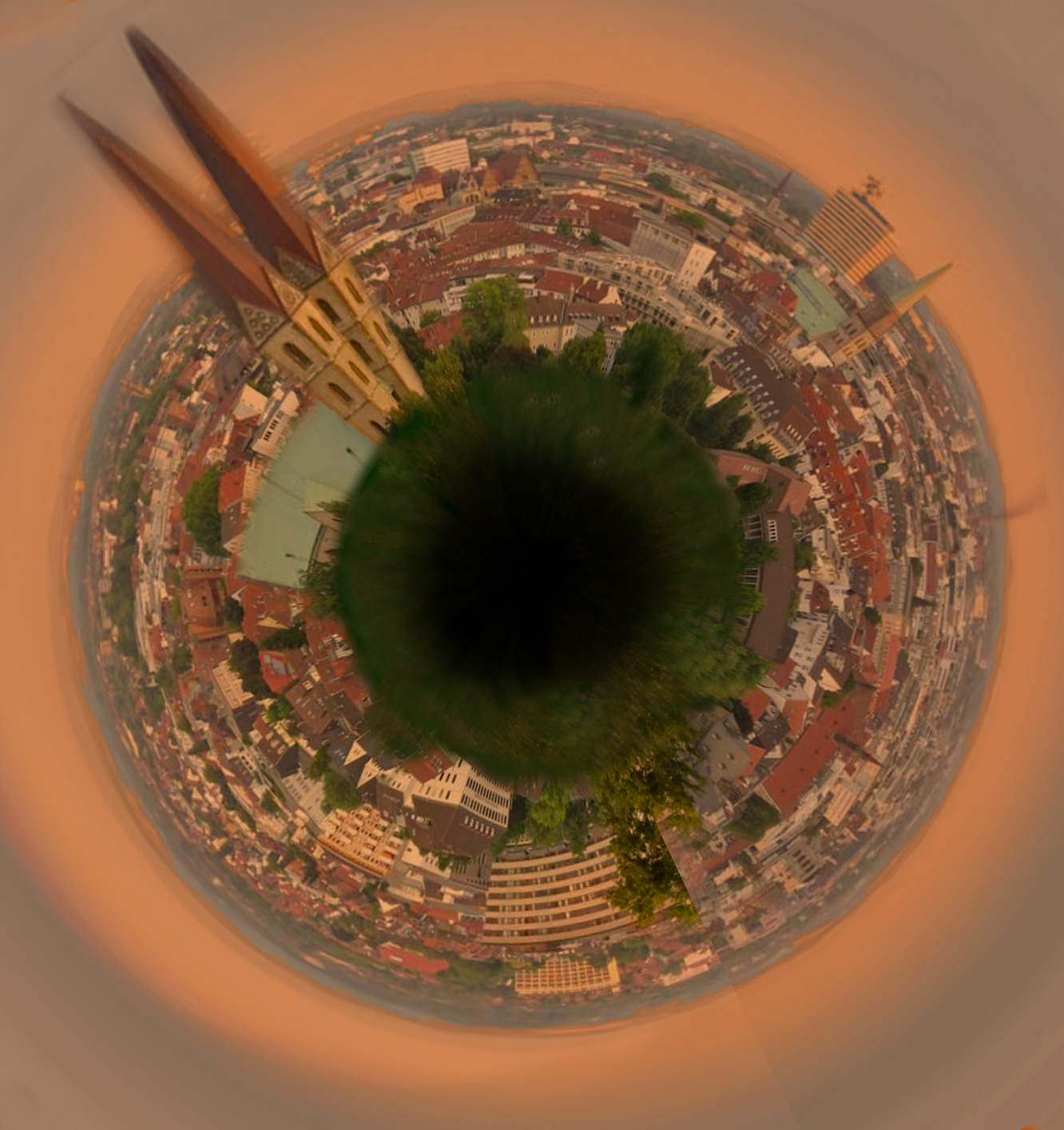 Little Planet Bielefeld, District of Herford, North Rhine-Westphalia, Germany.